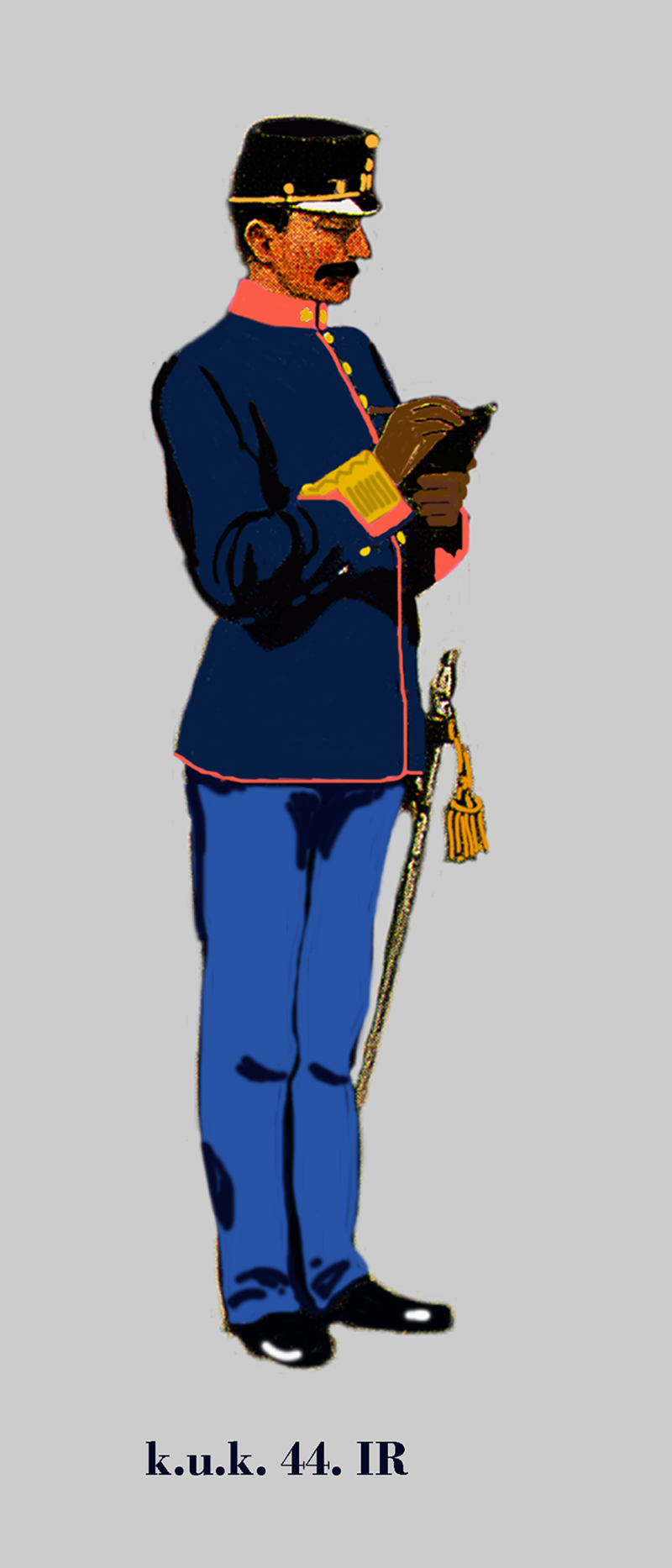 Lieutenant of the Austria-Hungarian (k.u.k.). 44th hungarian Infantry Regiment in Service dress 1914